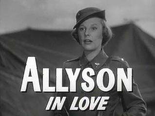 Cropped screenshot of June Allyson from the trailer for the film Battle Circus